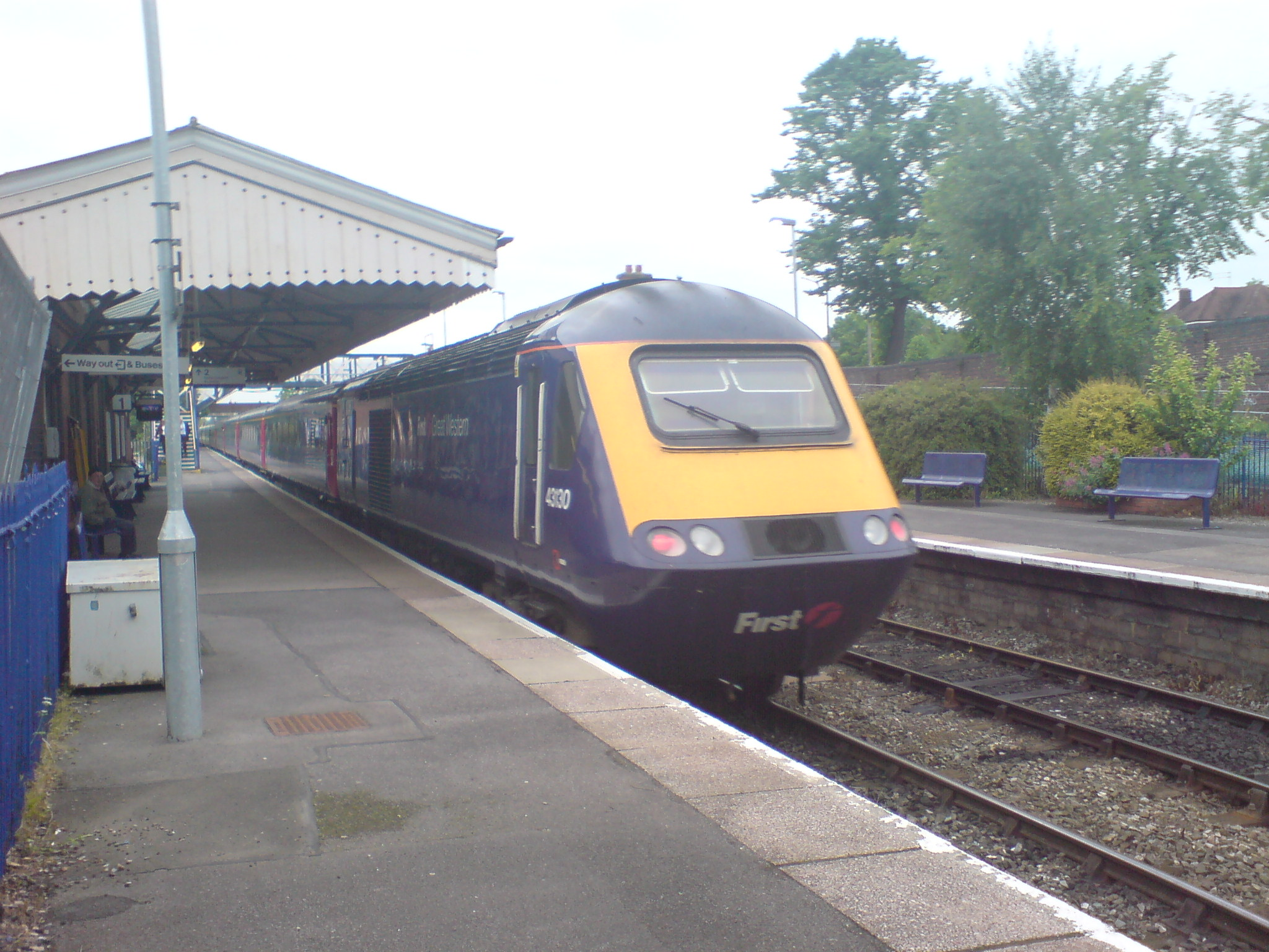 FGW train at Evesham